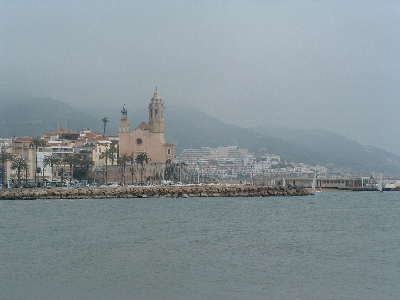 View of Sitges (Catalonia, Spain).